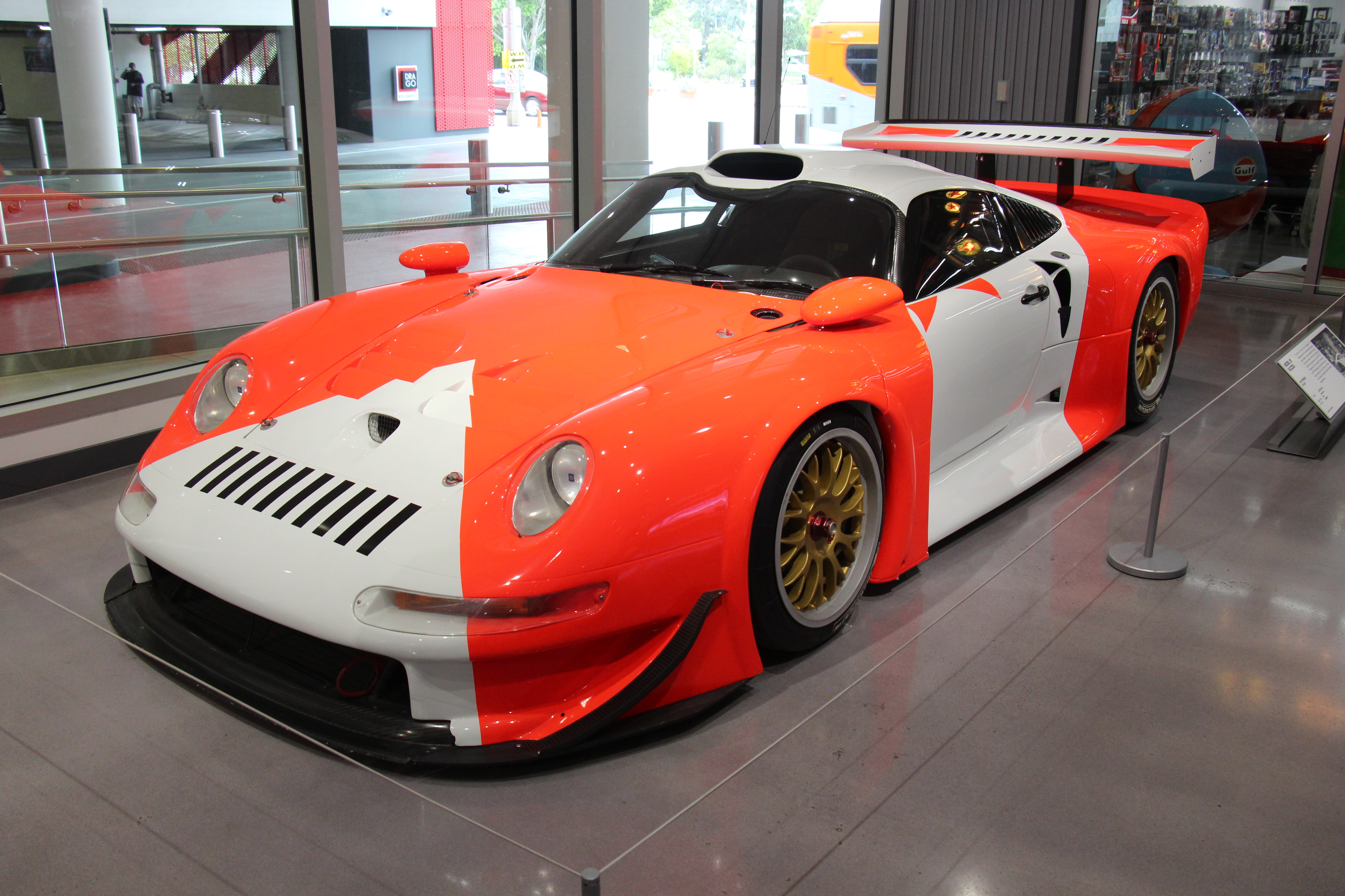 The Porsche 911 GT1 is a car designed for competition in the GT1 class of sportscar racing, which also required a street legal version for homologation purposes, built from 1996-99. In spite of its 911 moniker, the car actually had very little in common with the 911 of the time, however its frontal chassis was shared with the then (993) 911, while the rear of the car was derived from the Porsche 962. The engine was longitudinally-mounted in a rear mid-engine, rear-wheel-drive layout, compared to the rear-engine, rear-wheel-drive layout of a conventional 911. The 911 GT1 won its class at LeMans in 1996 In 1997, now the GT1 Evo, the front end of the car was revised including new bodywork which featured headlamps similar to the new 911 of that year. Reliability problems failed to give the GT1 success this year. A new body in 1998, the 911 GT1-98, despite being slower than the Toyota or the Mercedes, fulfilled Porsche's slim hopes, taking both first and second place overall at LeMans. The GT1 class was cancelled in 1999 Engine; 592hp 3164cc twin turbocharged flat six Photographed at the Peterson Museum